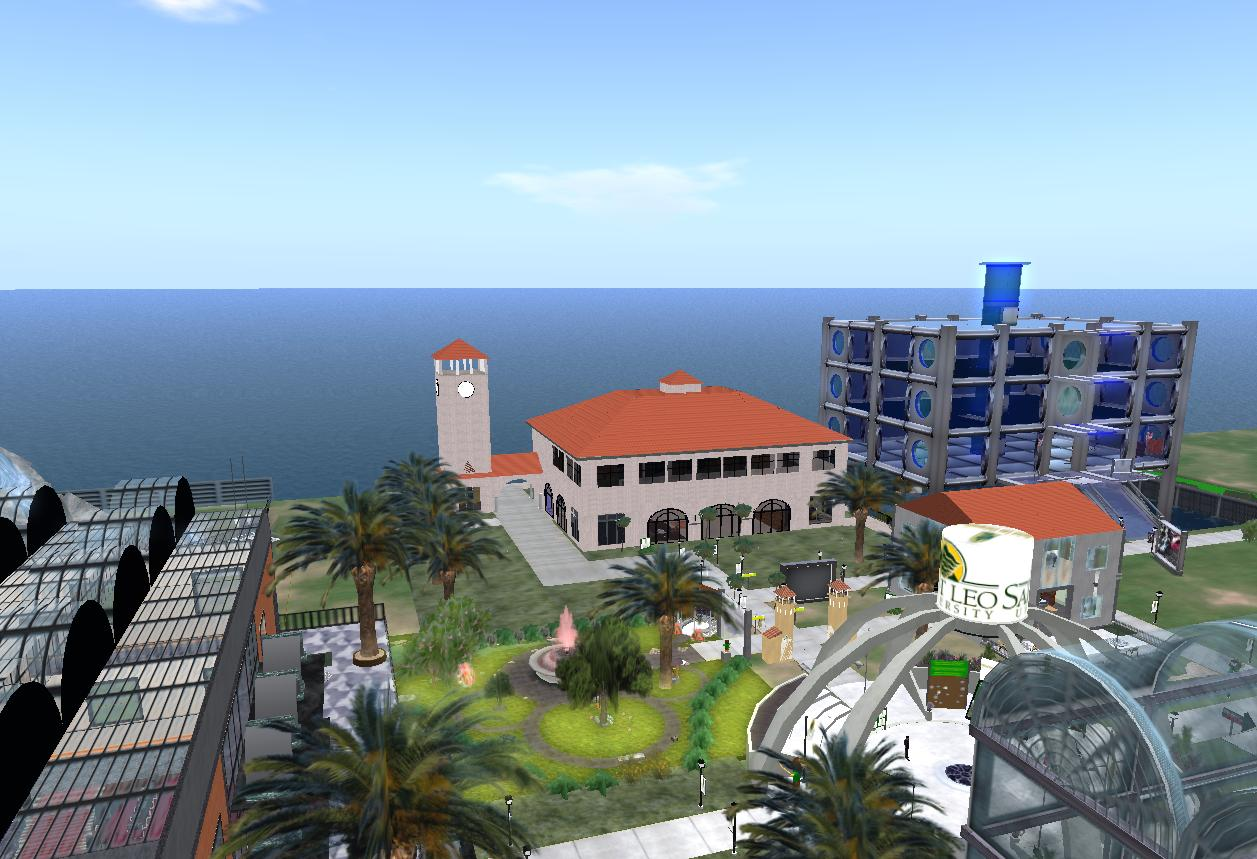 This is a view of a replica of the Student Center. It is located on main campus in Saint Leo, FL. This work was done by SaintLeoLions Zimer